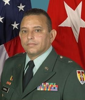 Image of BG RAFAEL O'FERRALL